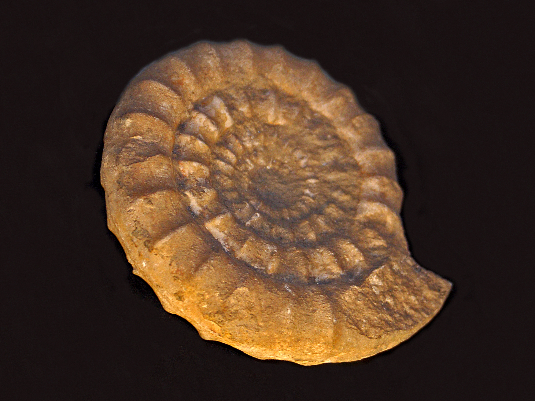 Fossil shells of Echioceras raricostatum from Pierreclos (France), on display at Gallery of Paleontology and Comparative Anatomy, Paris.